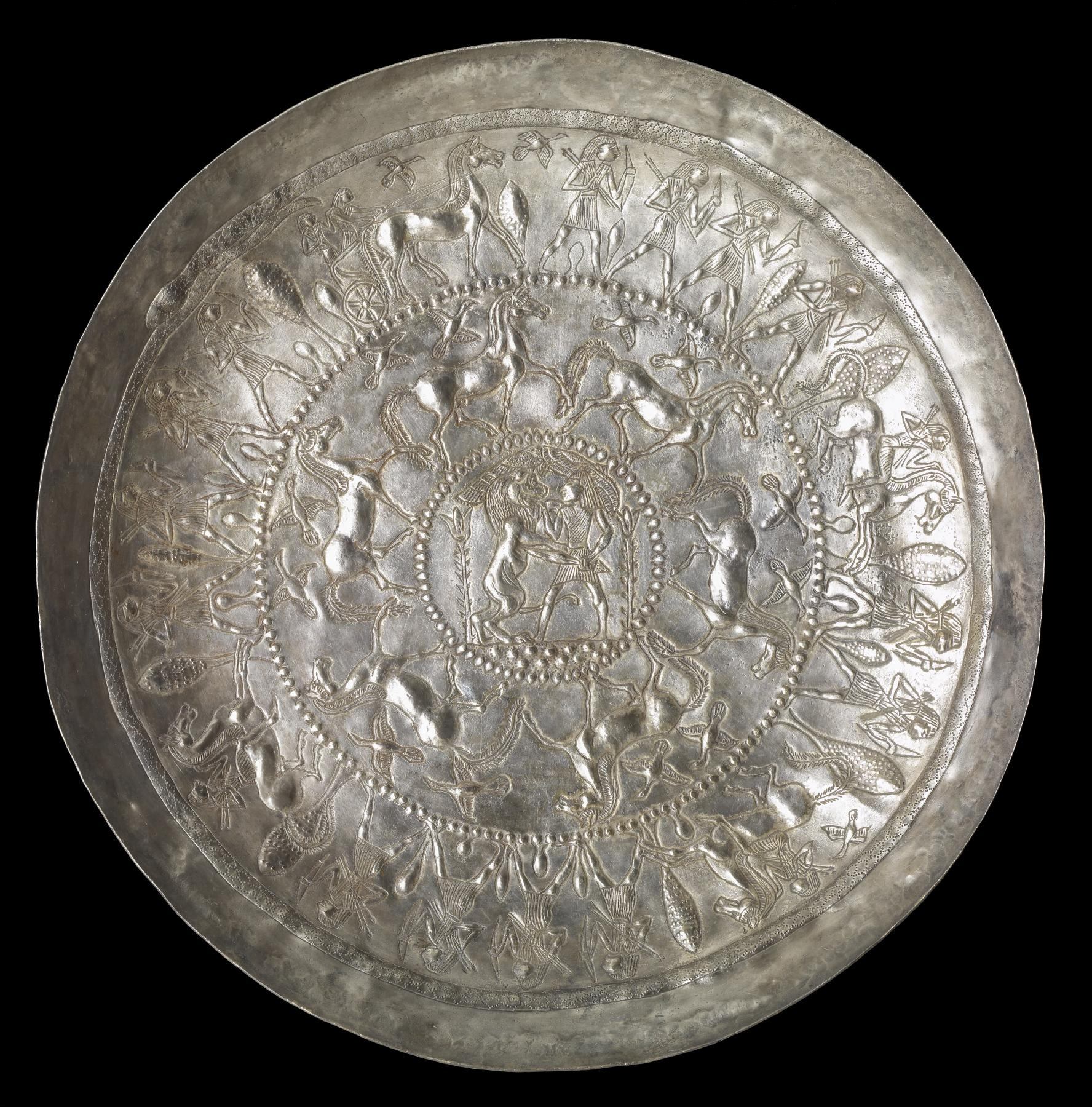 In the center of this shallow bowl, a man stabs a raging lion. They are surrounded by a ring of flying ducks and prancing horses. In the next ring, archers on foot and mounted spearmen advance among trees behind a chariot. The design, which may represent a hunting expedition, is encircled by a serpent with patterned skin. The clothing and hairstyle of the figures is Egyptian, while the subject matter of the central scene is a common Mesopotamian theme of combat between man and beast. Phoenician artists frequently adapted the styles of neighboring cultures.